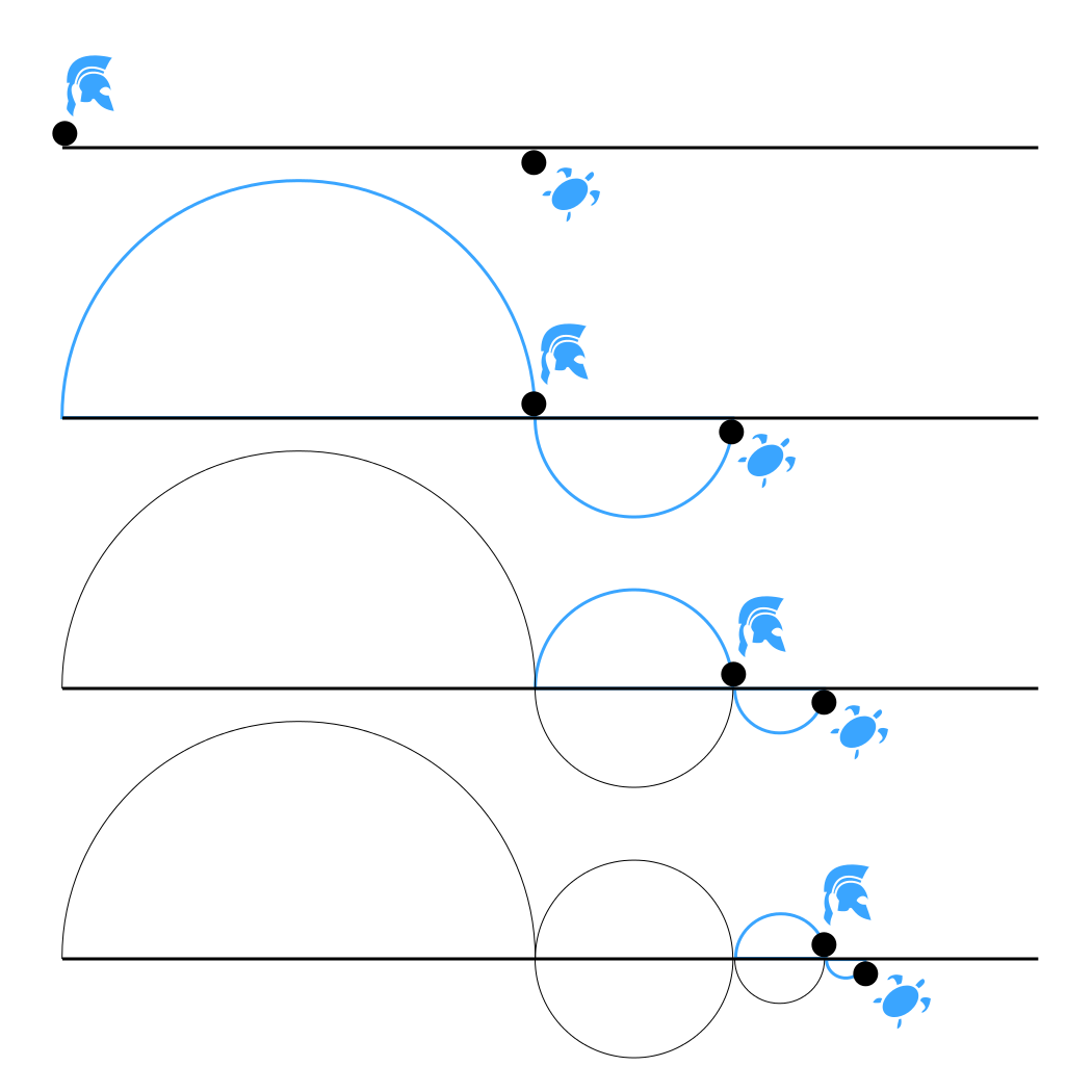 Zeno's paradoxes are a set of philosophical problems generally thought to have been devised by Greek philosopher Zeno of Elea (ca. 490–430 BC) to support Parmenides's doctrine that contrary to the evidence of one's senses, the belief in plurality and change is mistaken, and in particular that motion is nothing but an illusion. Source: Grandjean, Martin (2014) Henri Bergson et les paradoxes de Zénon : Achille battu par la tortue ?